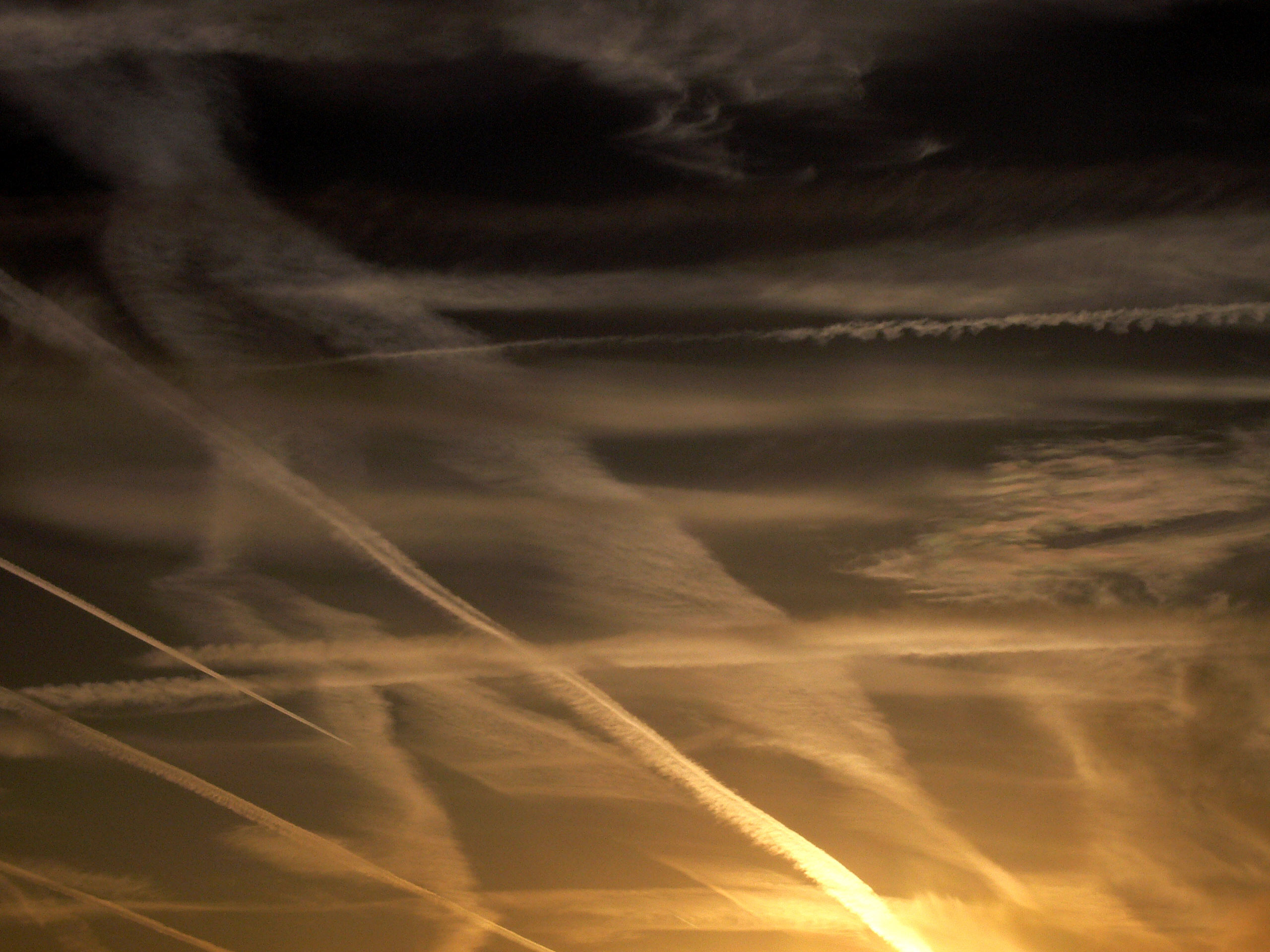 Contrails photographed from Lambersart, near Lille (North of France)